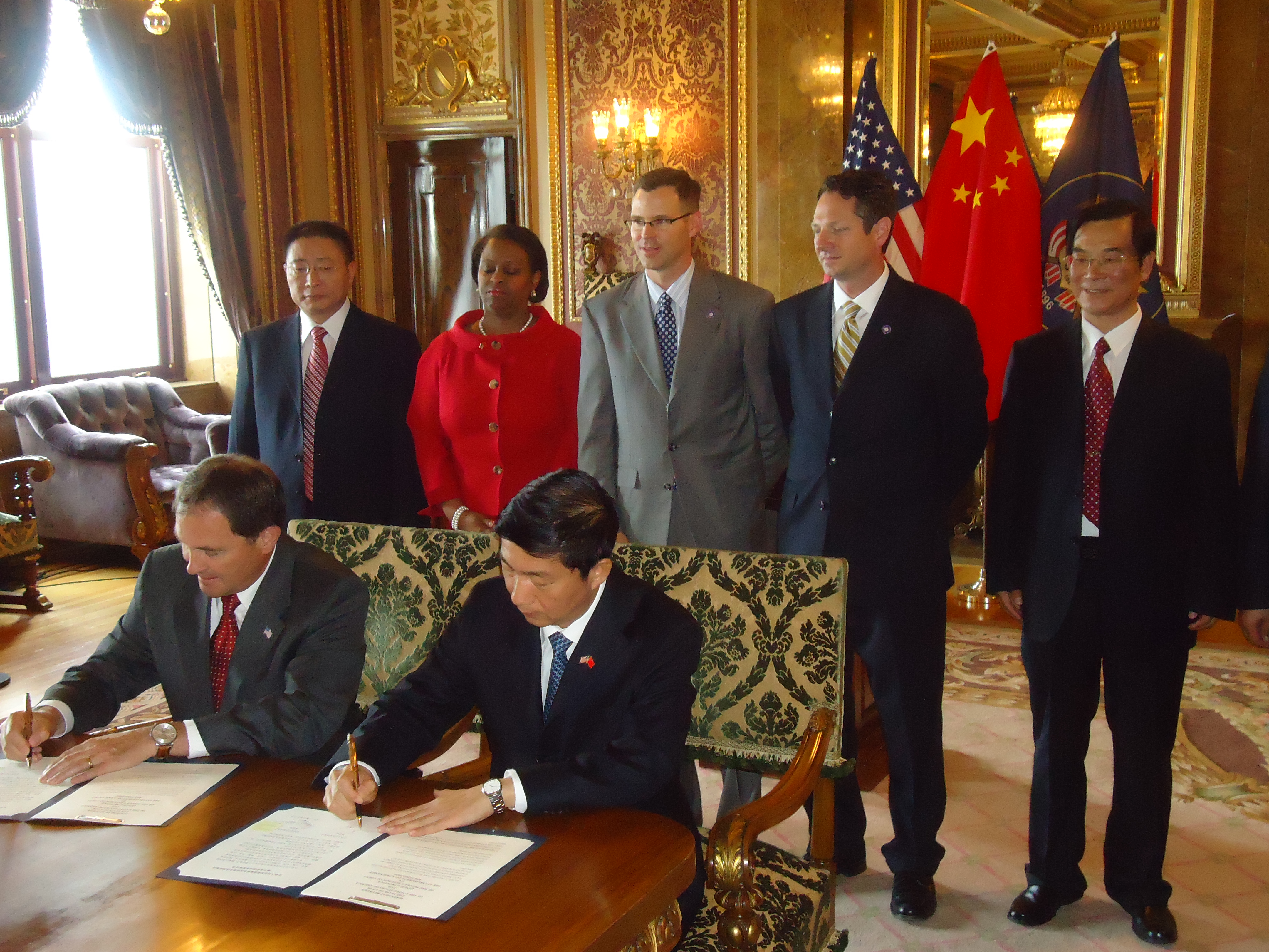 Special Representative Lewis Poses for a Photo With Utah Governor Herbert and Qinghai Governor Luo Huining Special Representative for Global Intergovernmental Affairs Reta Jo Lewis, second from left in the back row, poses for a photo with Utah Governor Gary Herbert and Qinghai Governor Luo Huining at a Memorandum of Understanding signing at the U.S.-China Governors Forum in Salt Lake City, Utah, on July 13, 2011. [State Department photo/ Public Domain]